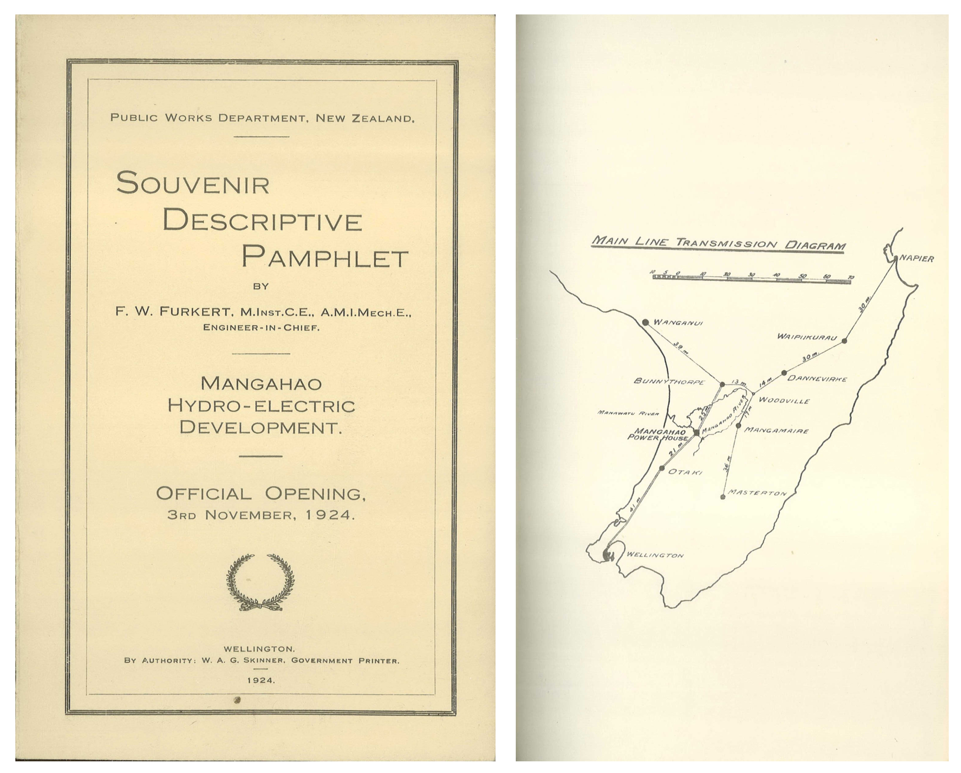 On November 3 1924 Mangahao Hydro-Electric Power Station became operational. The Mangahao Power Station was the first of many large hydro power stations to be built in New Zealand under a Government resourced plan to provide a national supply of electricity. Earlier hydro power stations, such as Waipori for Dunedin, Coleridge for Christchurch, and Horahora for Waihi mining had been initiated locally. The Power Station is located near the town of Shannon. It makes use of Mangahao River, through a series of tunnels and pipelines totalling 4.8 kilometres, in the Tararua Ranges. The first supply from the station went to the local Horowhenua area. Coverage was soon extended 100 km to Wellington by duplicate 110KV lines, followed by similar lines to Bunnythorpe near Palmerston North for supply to the Manawatu. Mangahao Power Station became the power station for Wellington, Horowhenua, Taranaki, Hawkes Bay, and the Wairarapa. The item shown is a Souvenir Pamphlet produced by the Public Works Department to mark the official opening of the power station. Reference: ADQX 17296 W3051 MARTINDALE W3051 3 / [3] For further enquiries please For updates on our On This Day series and news from Archives New Zealand, follow us on Twitter Material supplied by Archives New Zealand